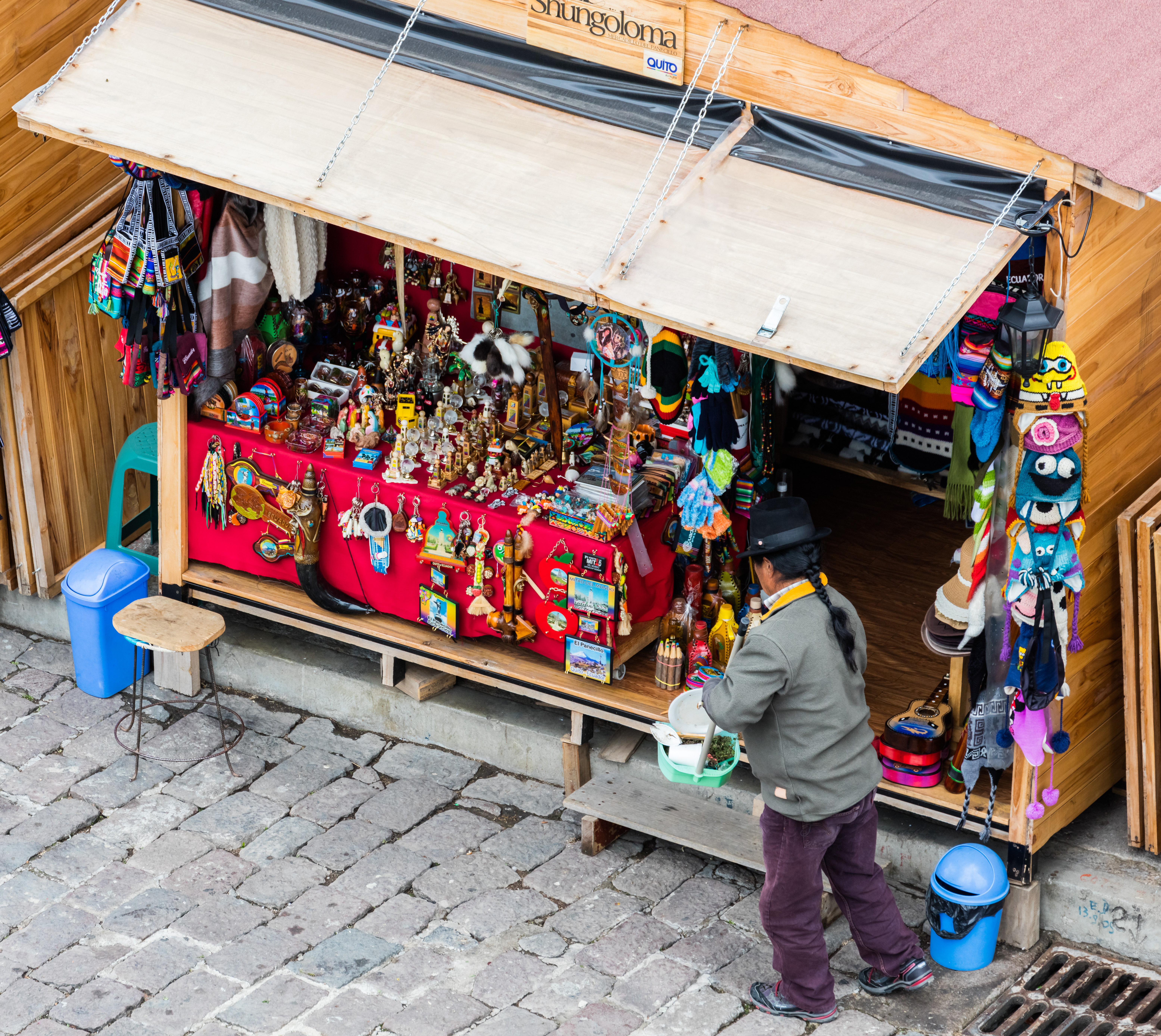 Seller in El Panecillo, Quito, Ecuador